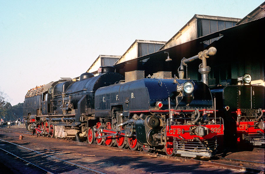 Angolan CFB (Benguela) Class 10C 4-8-2+2-8-4 no. 332 at Nova Lisboa Locoshed